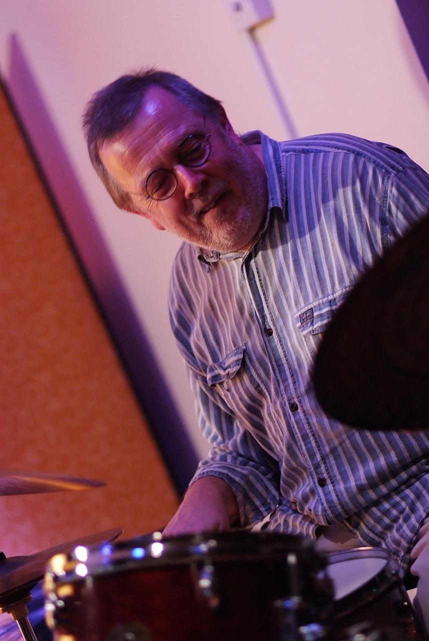 Spike Wells (jazz drummer) live in 2008